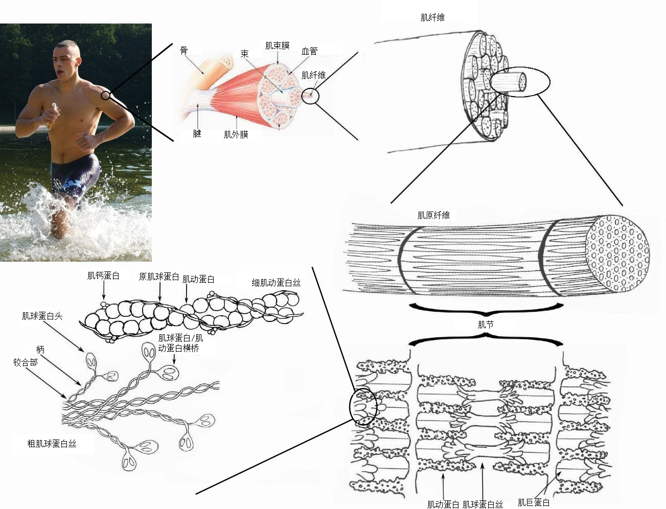 Photo montage created by Raul654. Clockwise, from top left: 1) Running man image from * * License: PD-USGov 2) Bone/Muscle group picture. * from * License: Public domain 3) A muscle fiber. Created by Raul654 using Rama's myofibril drawing for use in this picture 4) A myofibril. Drawn by Rama and modified by user:Raul654 * License: GFDL 5) A single sarcomere. Drawn by Rama and modified by user:Raul654 * License: GFDL 6) An thick filament. Drawn by Rama and modified by user:Raul654 * License: GFDL 7) A thin filament. Drawn by Rama and modified by user:Raul654 * * License: GFDL